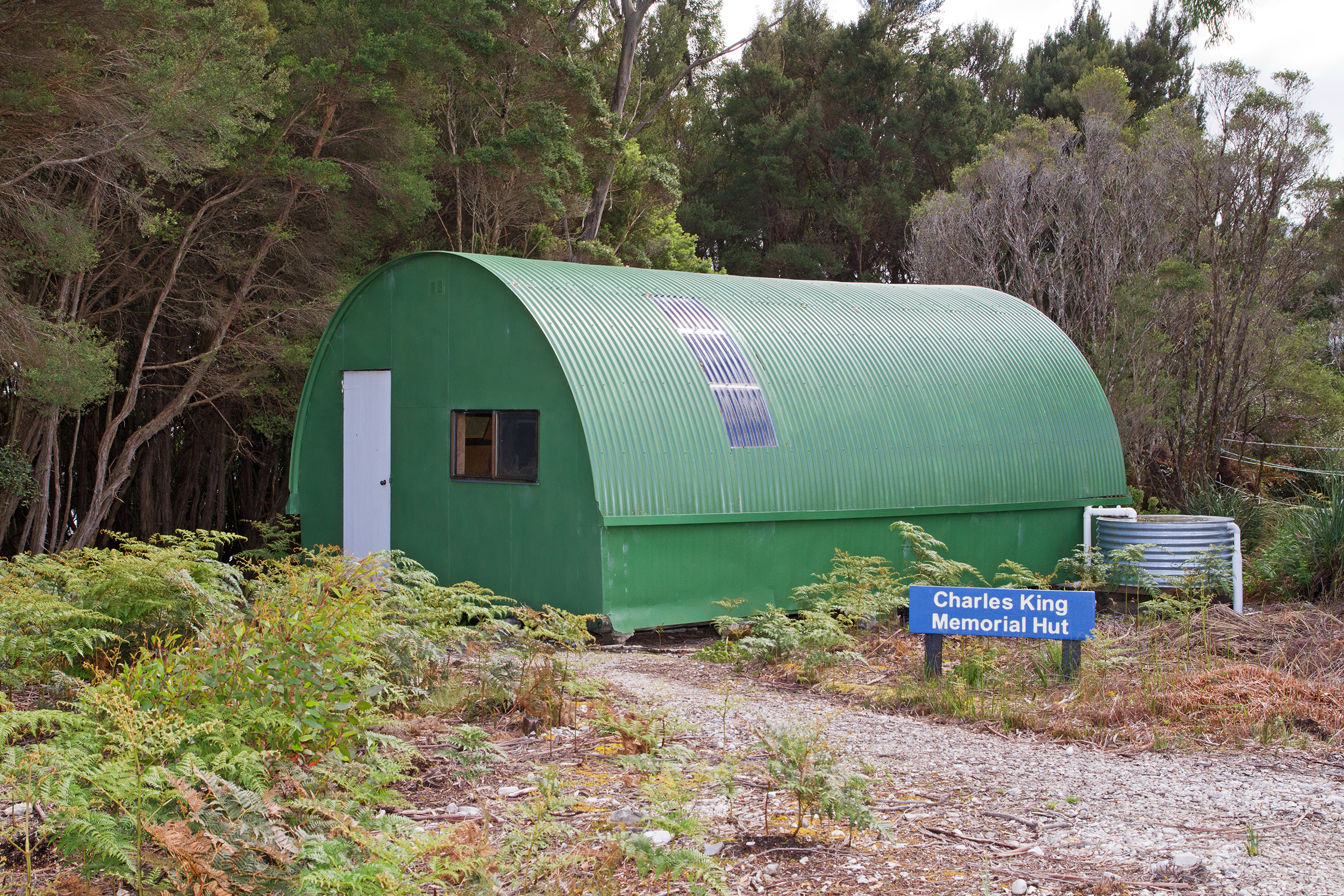 Charles King Memorial Hut, Southwest Conservation Area, Tasmania, Australia